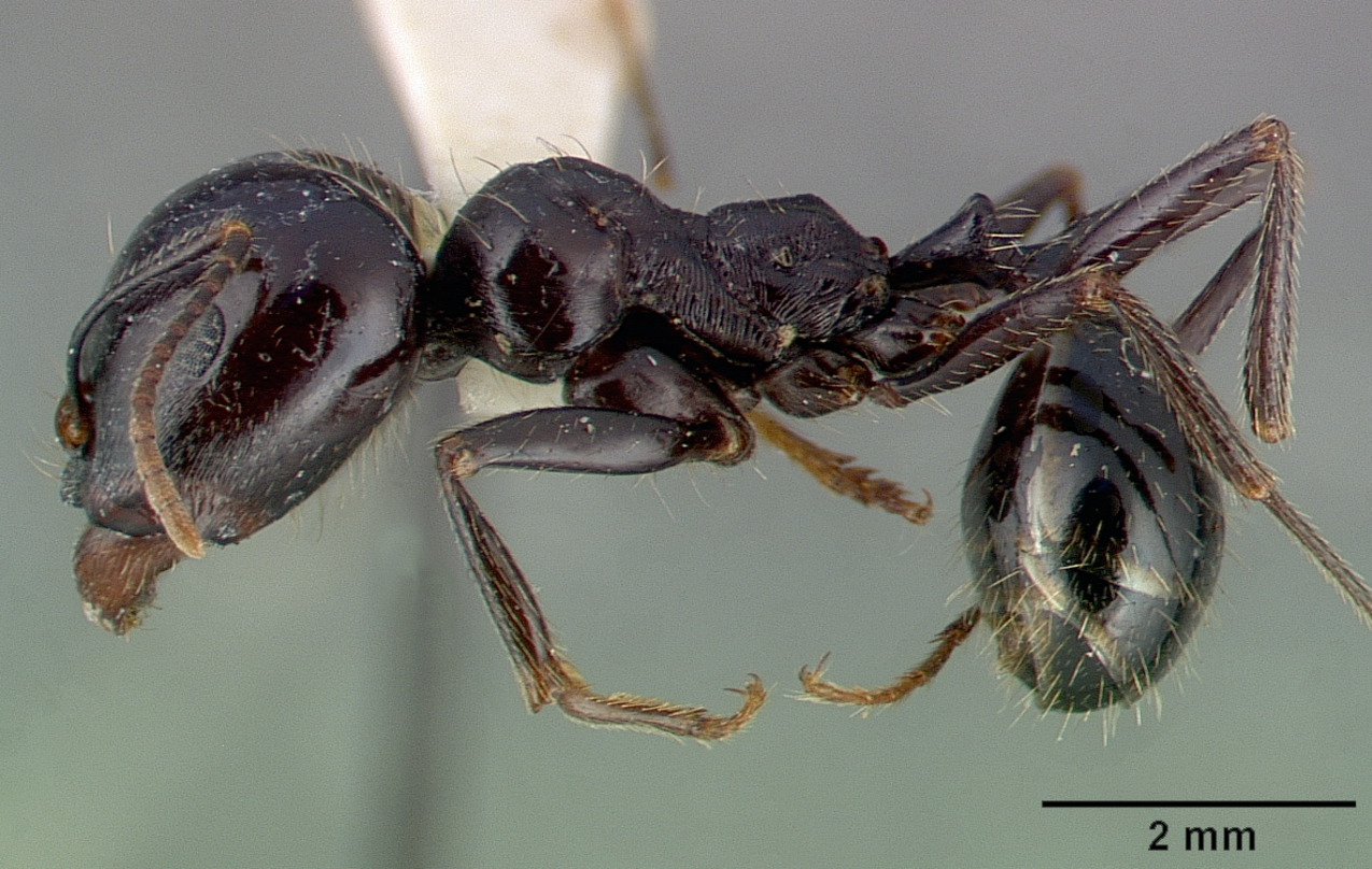 Profile view of ant Messor capitatus specimen casent0010645.